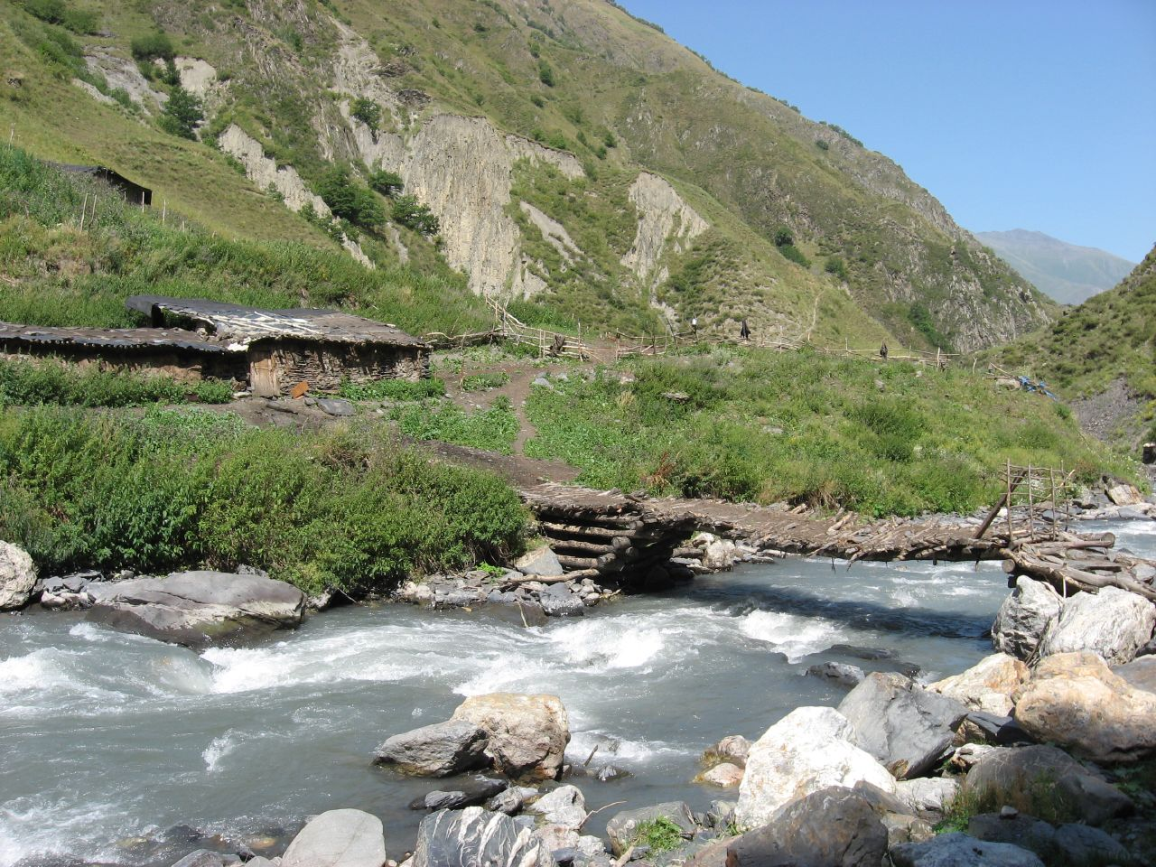 Bridge in Khevsureti.